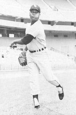 Professional baseball player Juan Pizarro